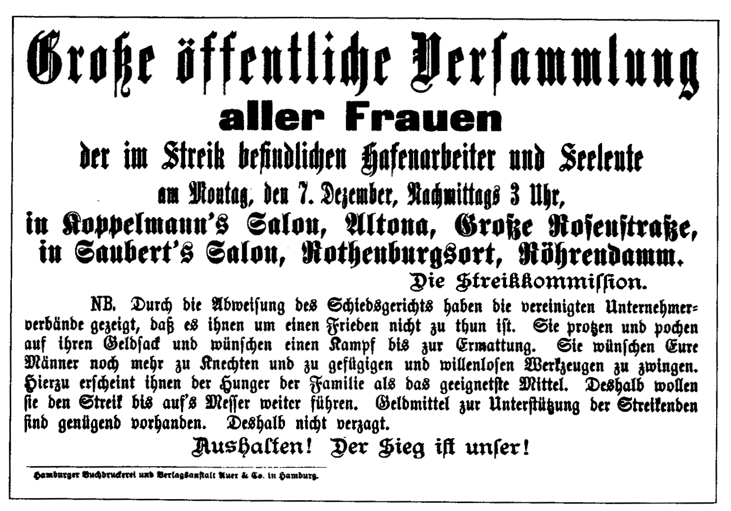 Hamburg Docker’s Strike 1896/97, flyer calling docker’s women to assemble, December 1996